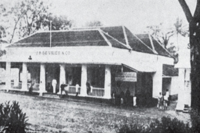 De Vries, the first Western supermarket in Bandung at Braga Street.